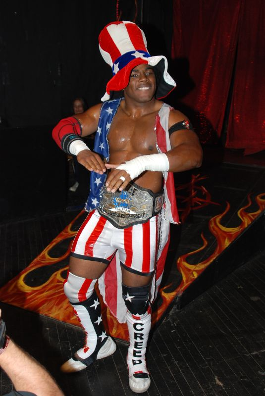 Austin Creed